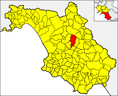 Locator map of the municipality of Ottati (red) within the Province of Salerno